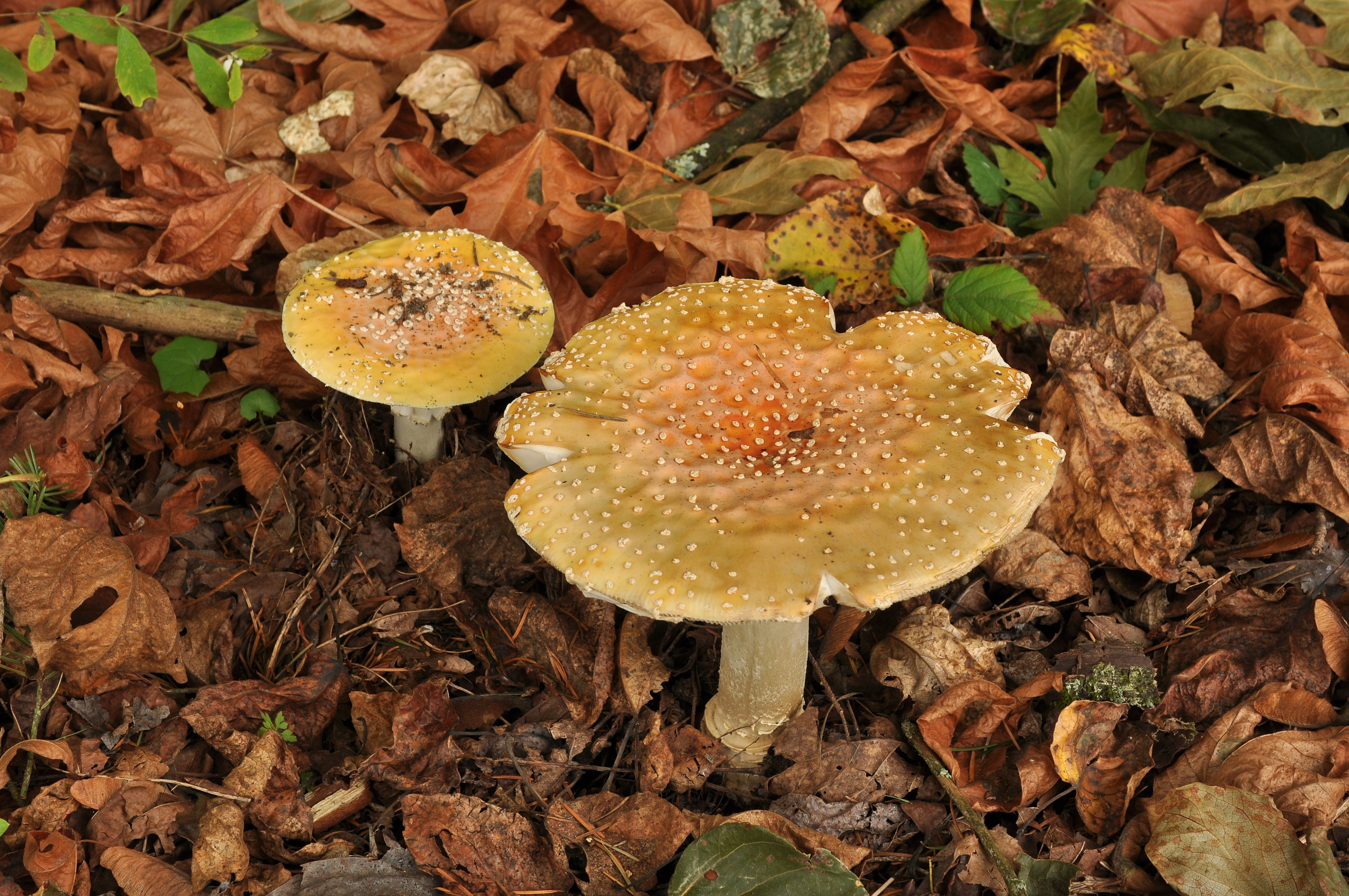 A fly agaric (Amanita muscaria guessowii) growing by the side of the road.